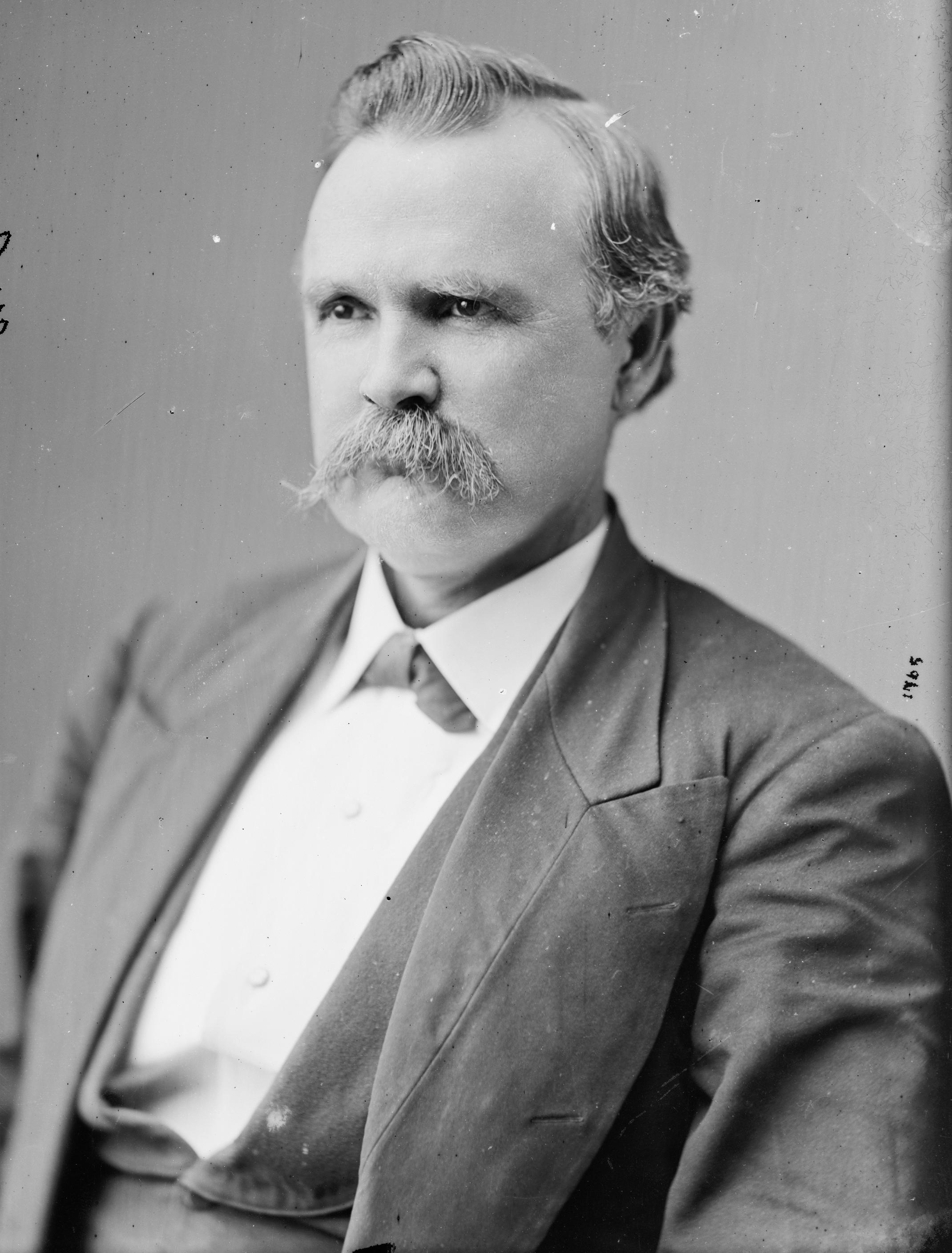 Roger Q. Mills. Library of Congress description: "Mills, Hon. Roger Quarles of Texas Colonel of 10th Texas Inf. C.S.A. Wounded at Missionary Ridge and Atlanta"